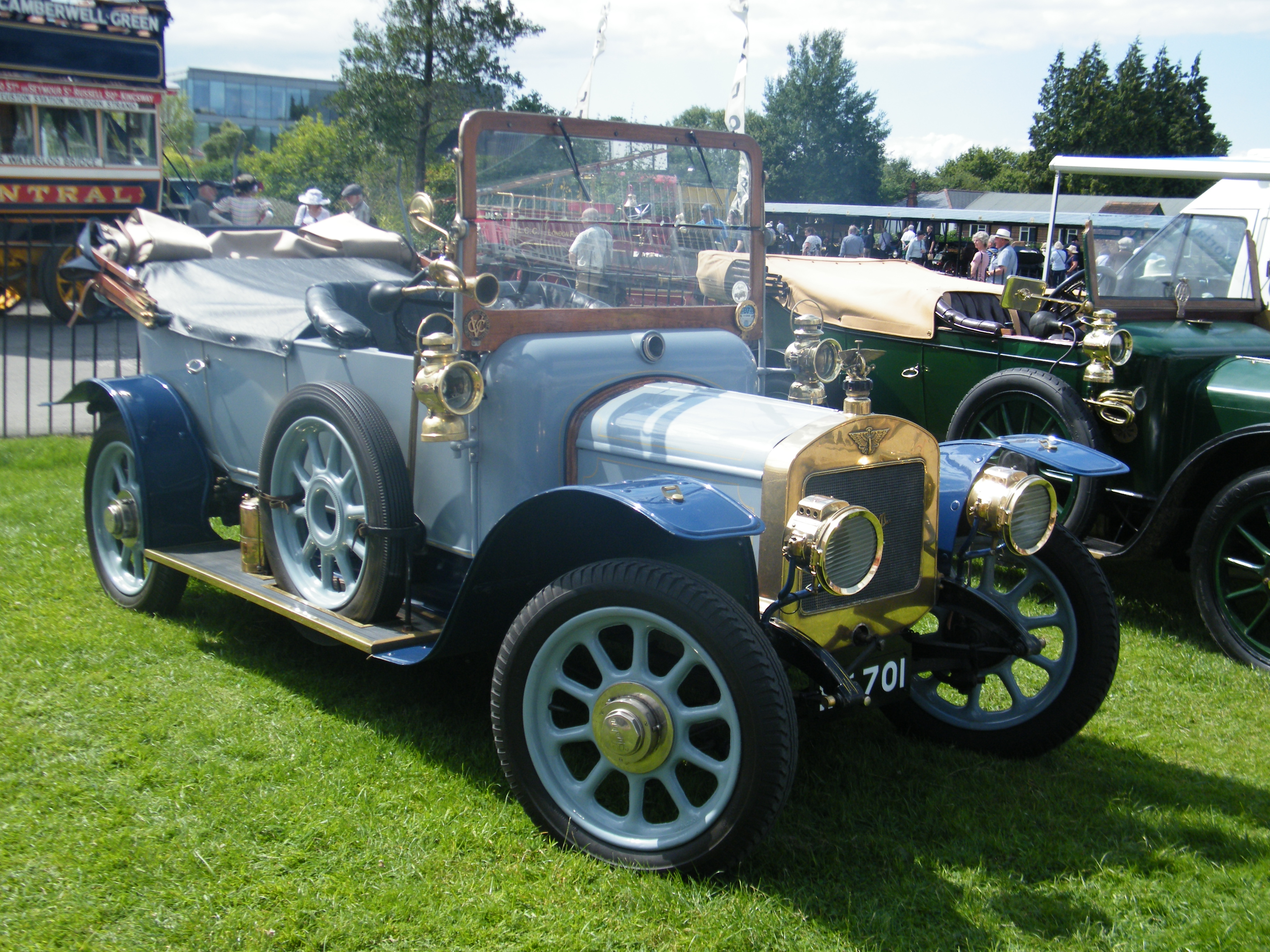 1911 Austin 15 Tourer Great War 100 Brooklands Weybridge 3 August 2014 chassis 4043 engine 6186 body not by Austin but is British aka SV 6963 Source of information Ian Dimmer, The Edwardian Austin, the survivors, The Vintage Austin Register Limited, 2014